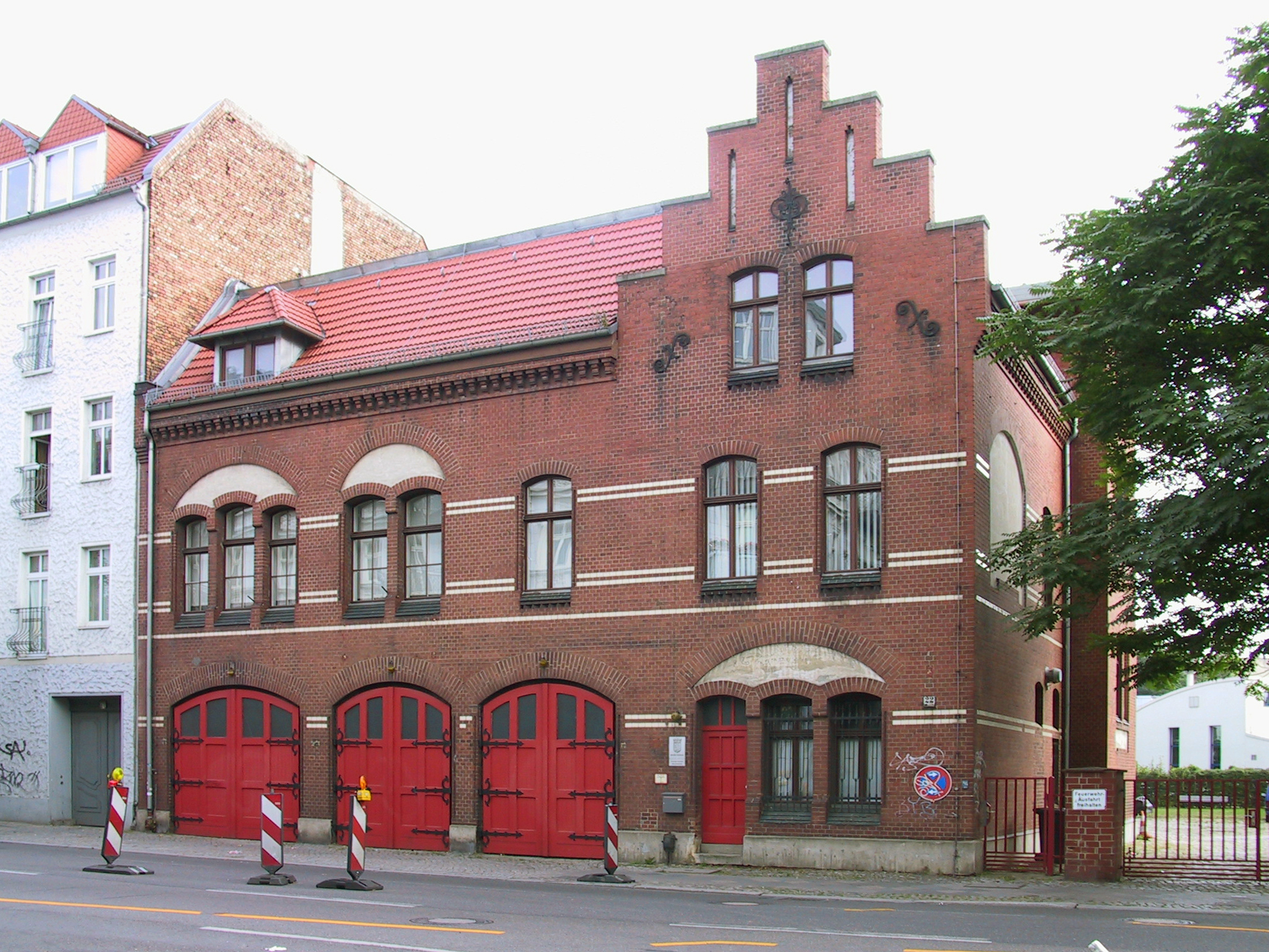 Old fire station in Oberschöneweide localitie of Berlin.